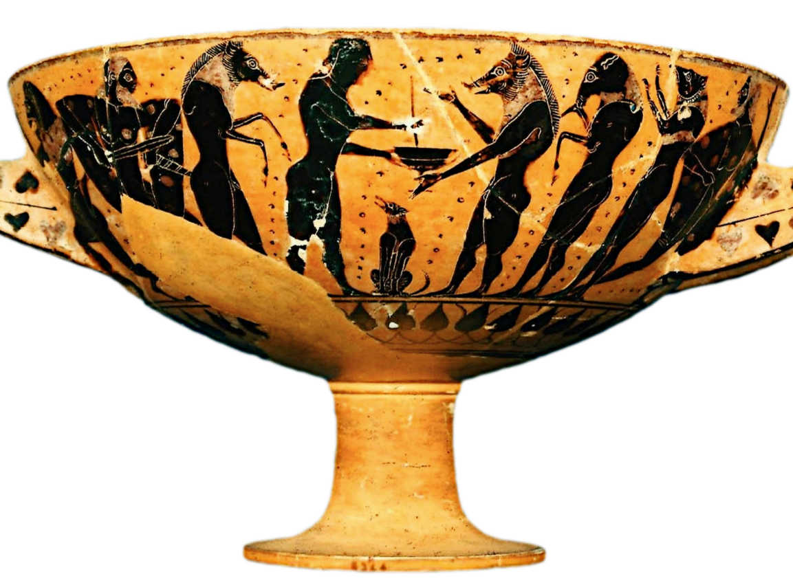 Wine cup (kylix) depicting scenes from the Odyssey. Greek, Archaic Period, ca. 560-550 BCE. The Painter of the Boston Polyphemos. Henry Lillie Pierce Fund, 1899, Museum of Fine Arts, Boston (99.518). This photo was taken April 28, 2013 by Lucas aka ancientartpodcast on Flickr. This version of the image has been resized, cropped slightly, and the background edited to solid white.